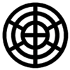 Company mark of Tobu Railway